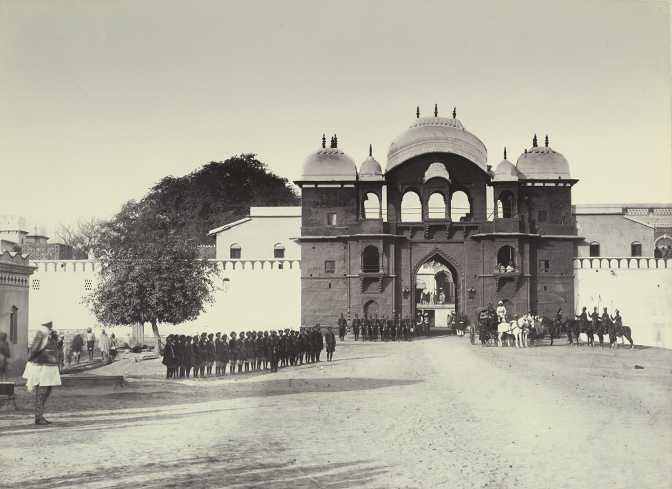 Troops on parade in front of the Lal Darwaza at the fort and palace of the Maharaja of Benares from the Kitchener of Khartoum Collection: 'Views of Benares. Presented by the Maharaja of Benares' photographed by Madho Prasad, c. 1905.